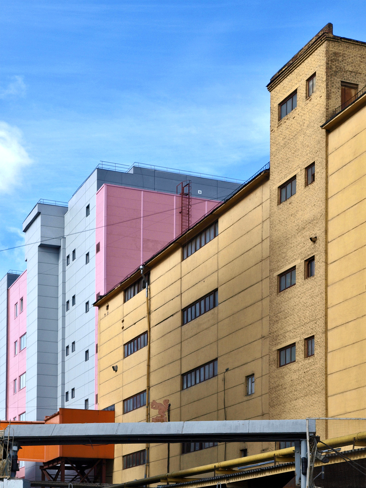 Malaya Krasnoselskaya Street - old warehouses, Moscow.